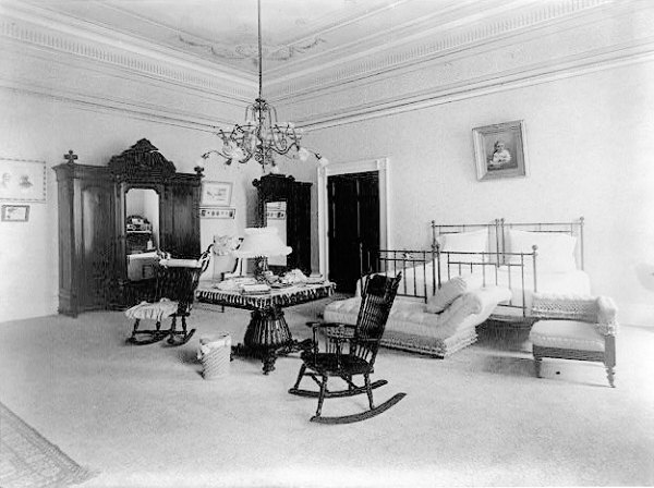 Bedroom of First Lady Ida McKinley at the White House in Washington, D.C., some time between 1897 and 1900. This room was an unnamed bedroom suite from the time of its completion in 1809 until 1860, when it was named the Prince of Wales Room. It was renamed the Lincoln Bedroom in 1929, a name it retained until the bedroom suite was removed in 1961 and the space transformed into the Family Kitchen and the President's Dining Room.